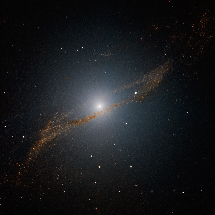 This image of the central parts of Centaurus A reveals the parallelogram-shaped remains of a smaller galaxy that was gulped down about 200 to 700 million years ago. The image is based on data collected with the SOFI instrument on ESO’s New Technology Telescope at La Silla. The original image, obtained by observing in the near-infrared through three different filters (J, H and K) was specially processed to look through the dust, providing a clear view of the centre. The field of view is about 4 x 4 arcminutes.